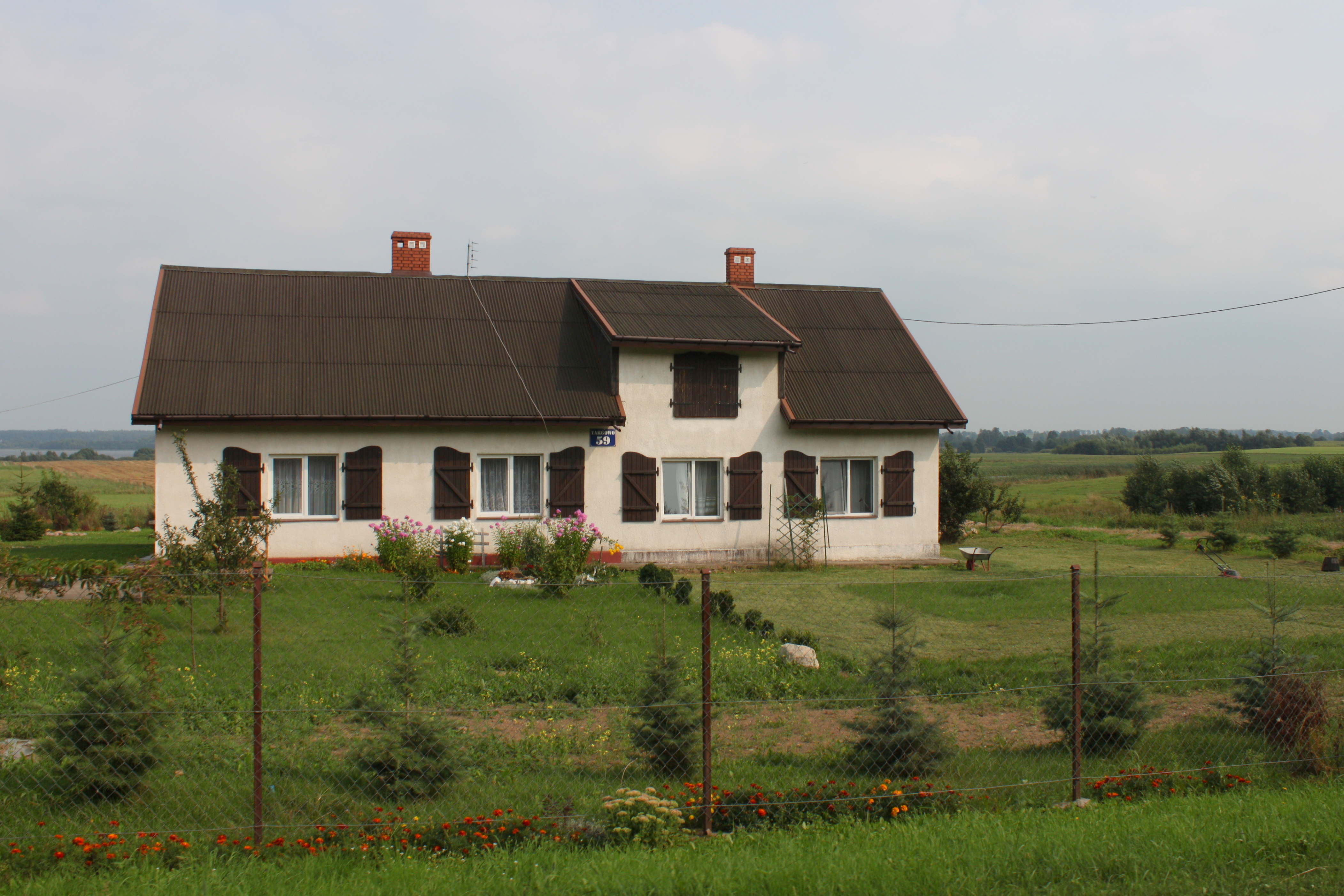 House in Targowo.